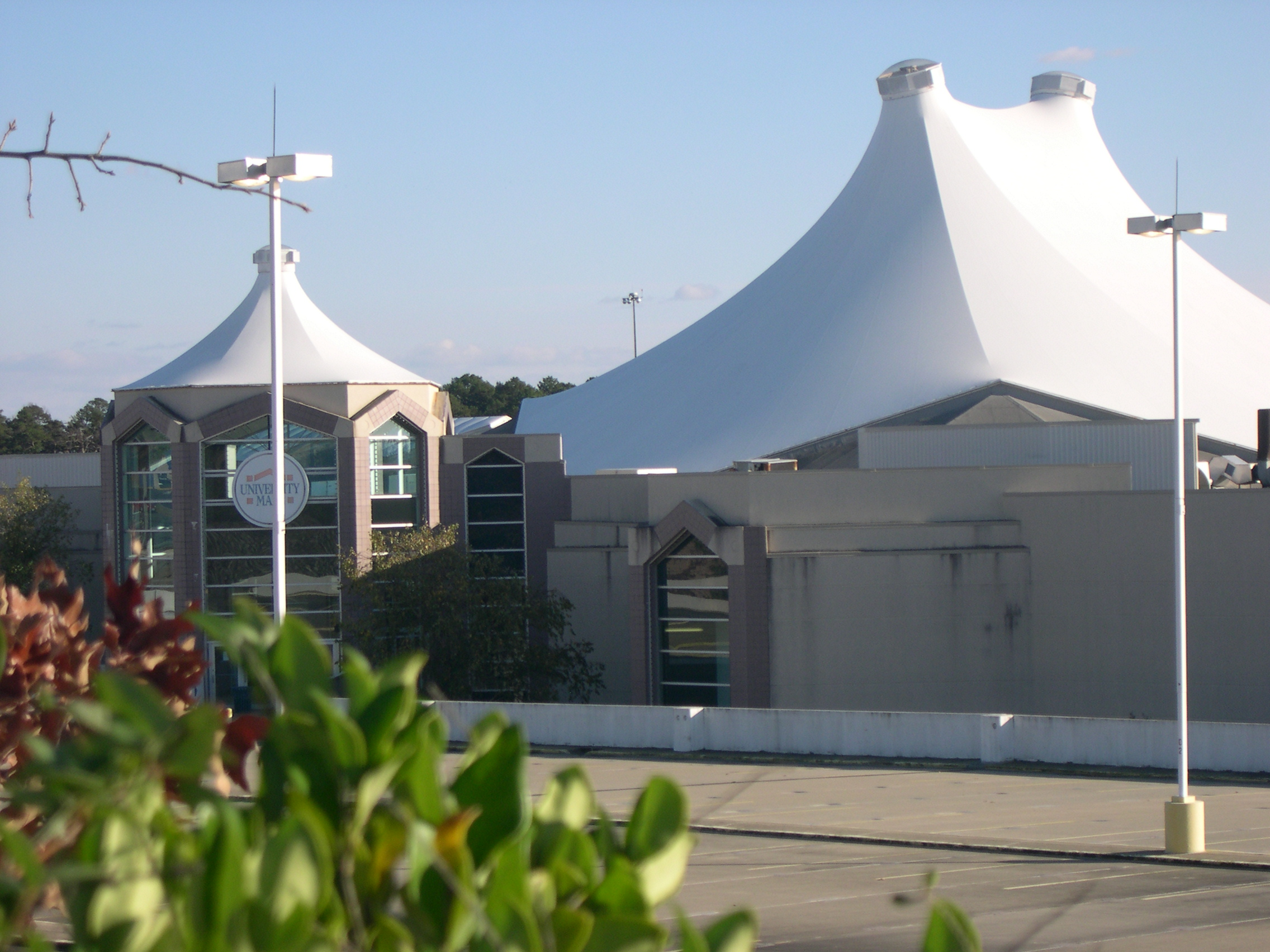 This is the North entrance to the defunct University Mall shortly before demolition.